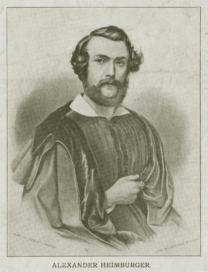 Alexander Heimburger aka Herr Alexander (1819-1909), famous conjurer